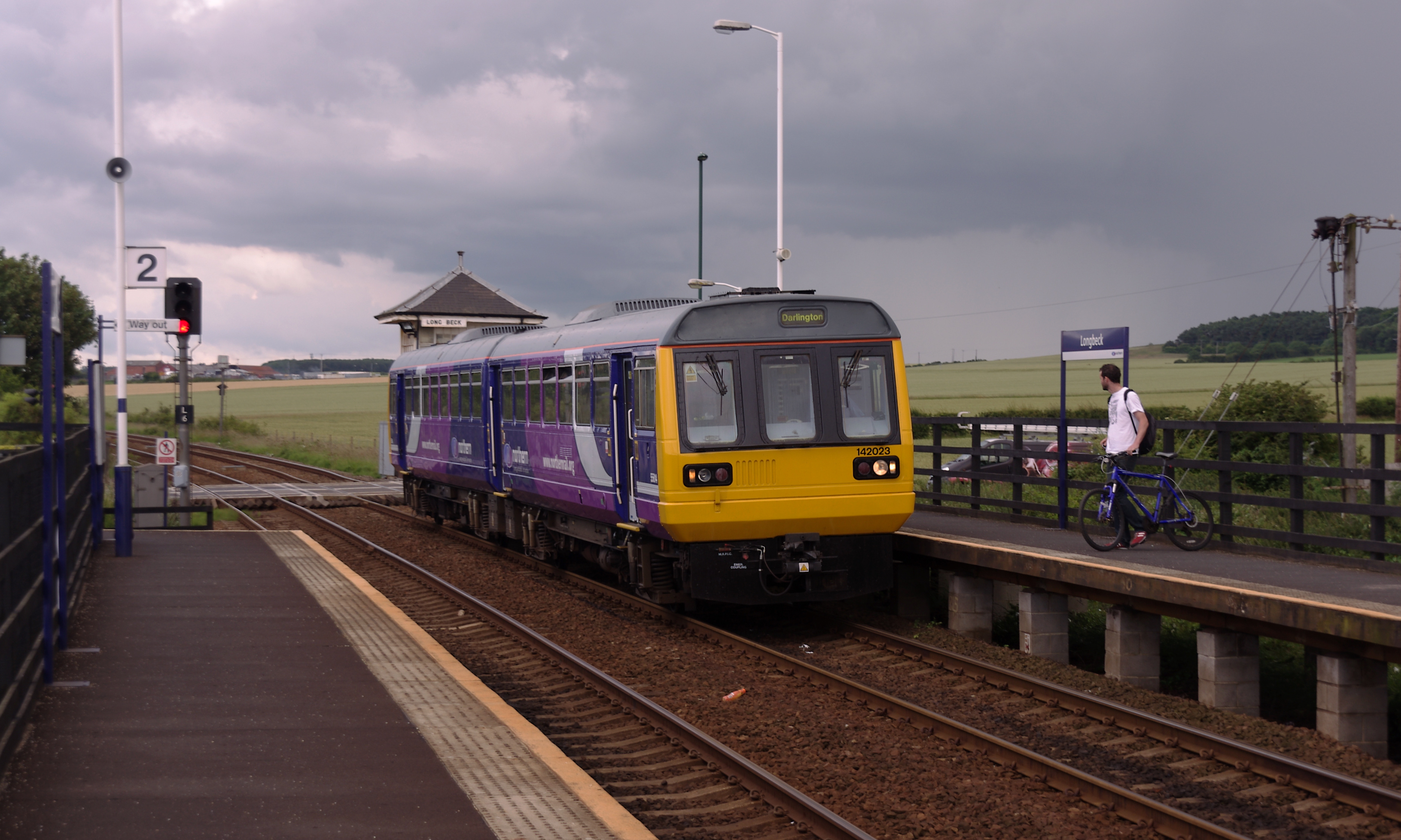 Northern Rail Pacer DMU 142023 at Longbeck railway station with a service to Darlington.